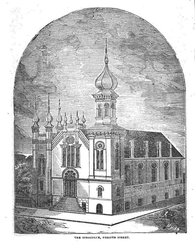 Synaogue, Forsyth Street Atlanta 1881